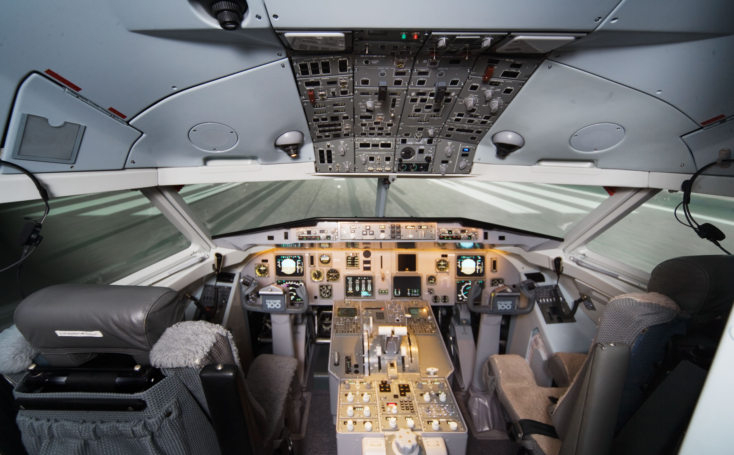 The inside view of the Fokker Simulator of Aviation Academy Austria